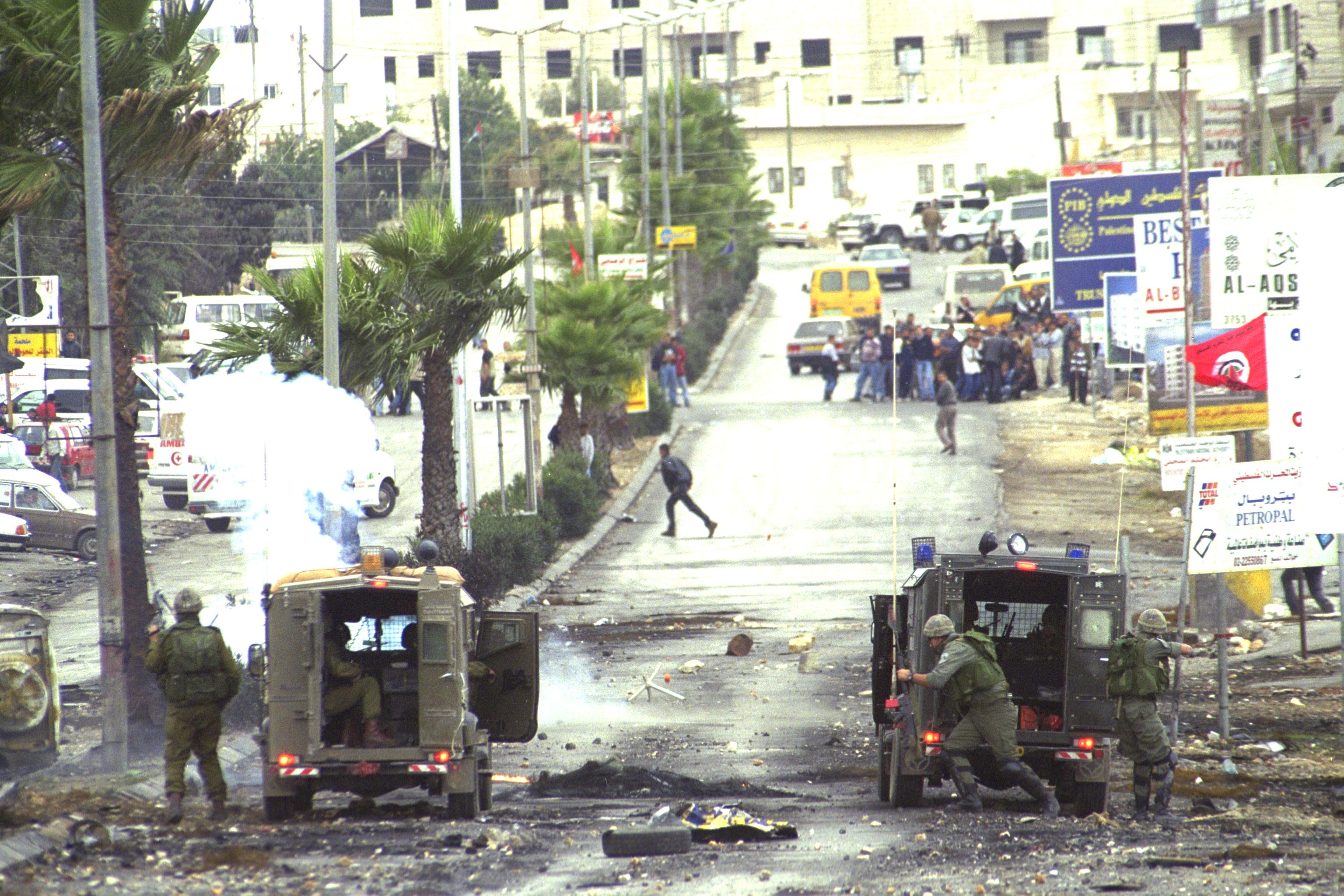 Palestinian rioters confronting security forces, at "Ayosh" Junction, near Ramallah.